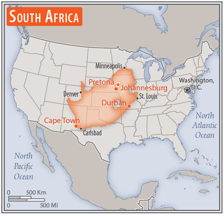 Comparison of the areas of two country. The area of South Africa with biggest cities (red) overlay the area of the United States of America (gray background).